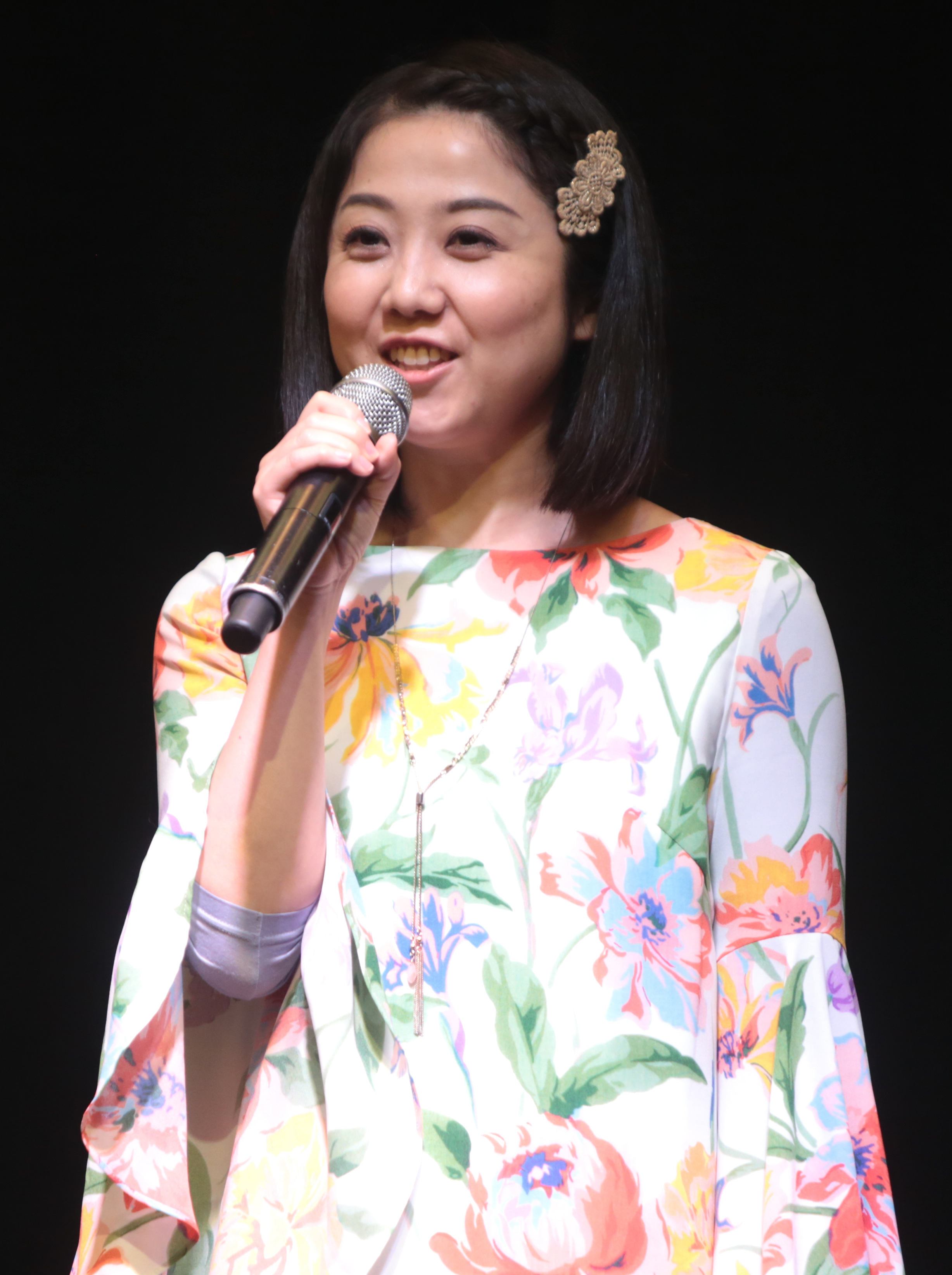 Akemi Kanda speaking at Taiyou Con 2017 in Mesa, Arizona.